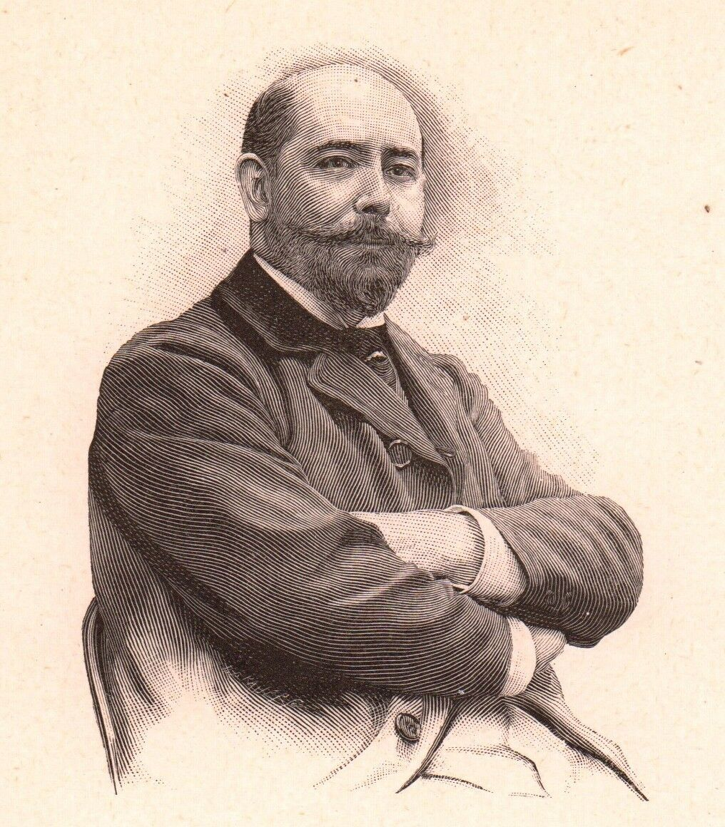 French writer and playwright Alfred Capus (1857-1922)